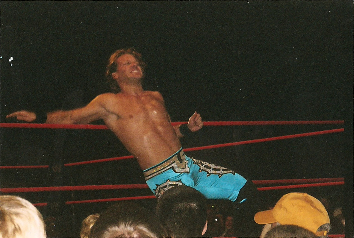 Y2J at a house show in Green Bay, WI Oct. 2004.